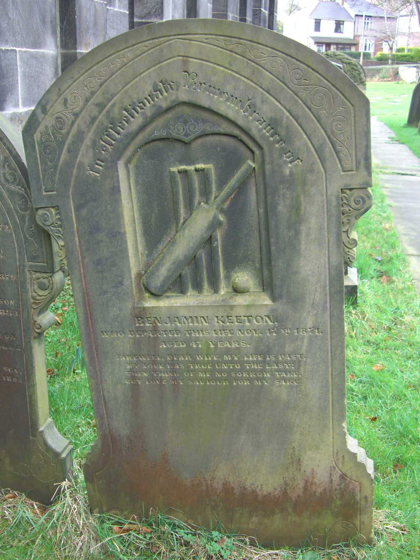 Headstone of Benjamin Keeton in Wadsley Parish Churchyard, Sheffield